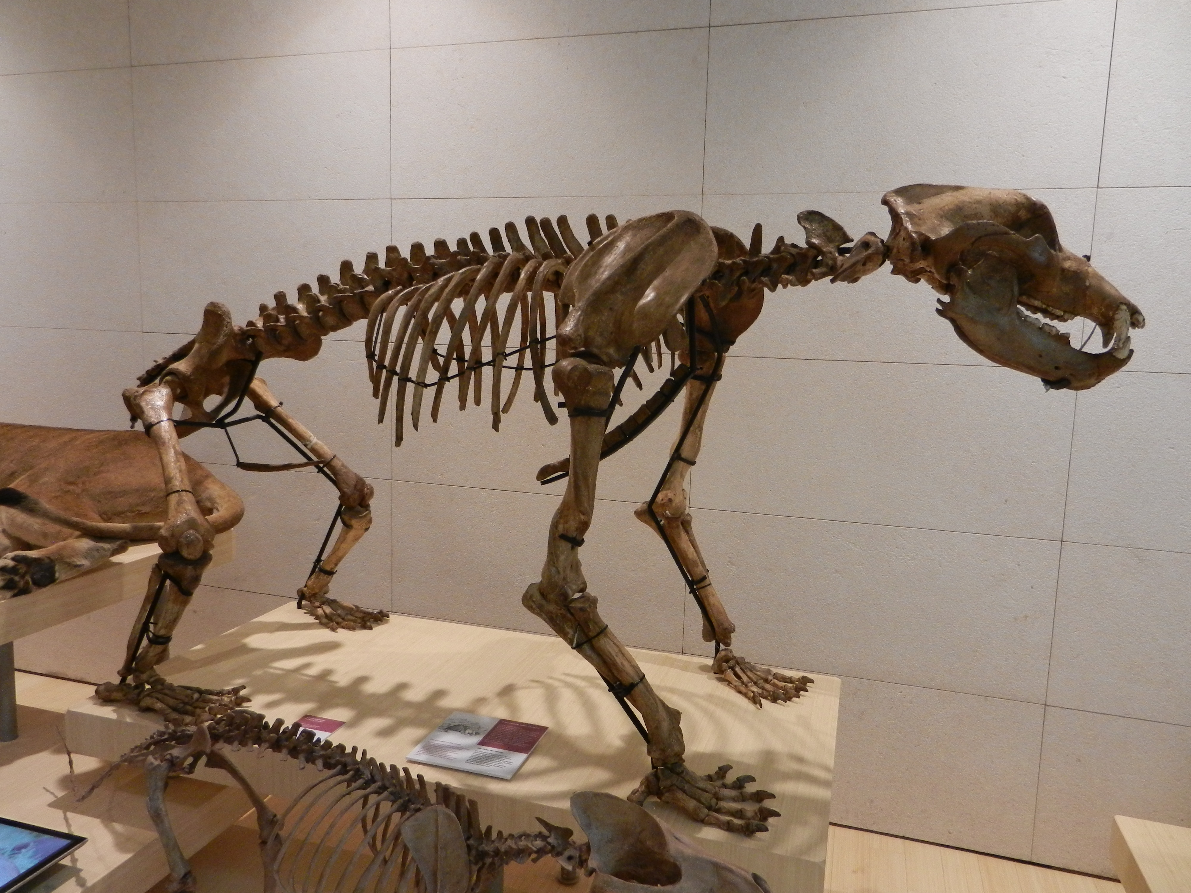 Photo taken at MuSe in Trento.